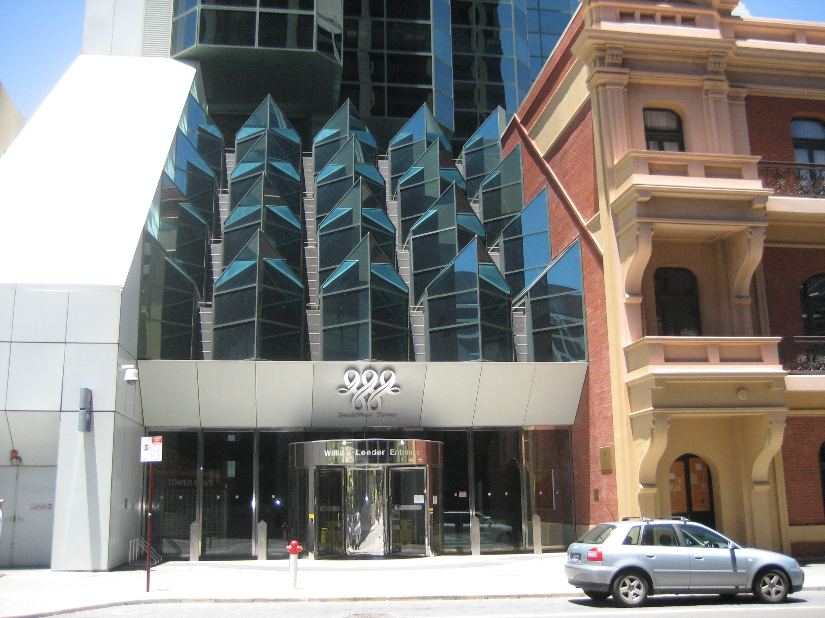 Palace Hotel, Perth